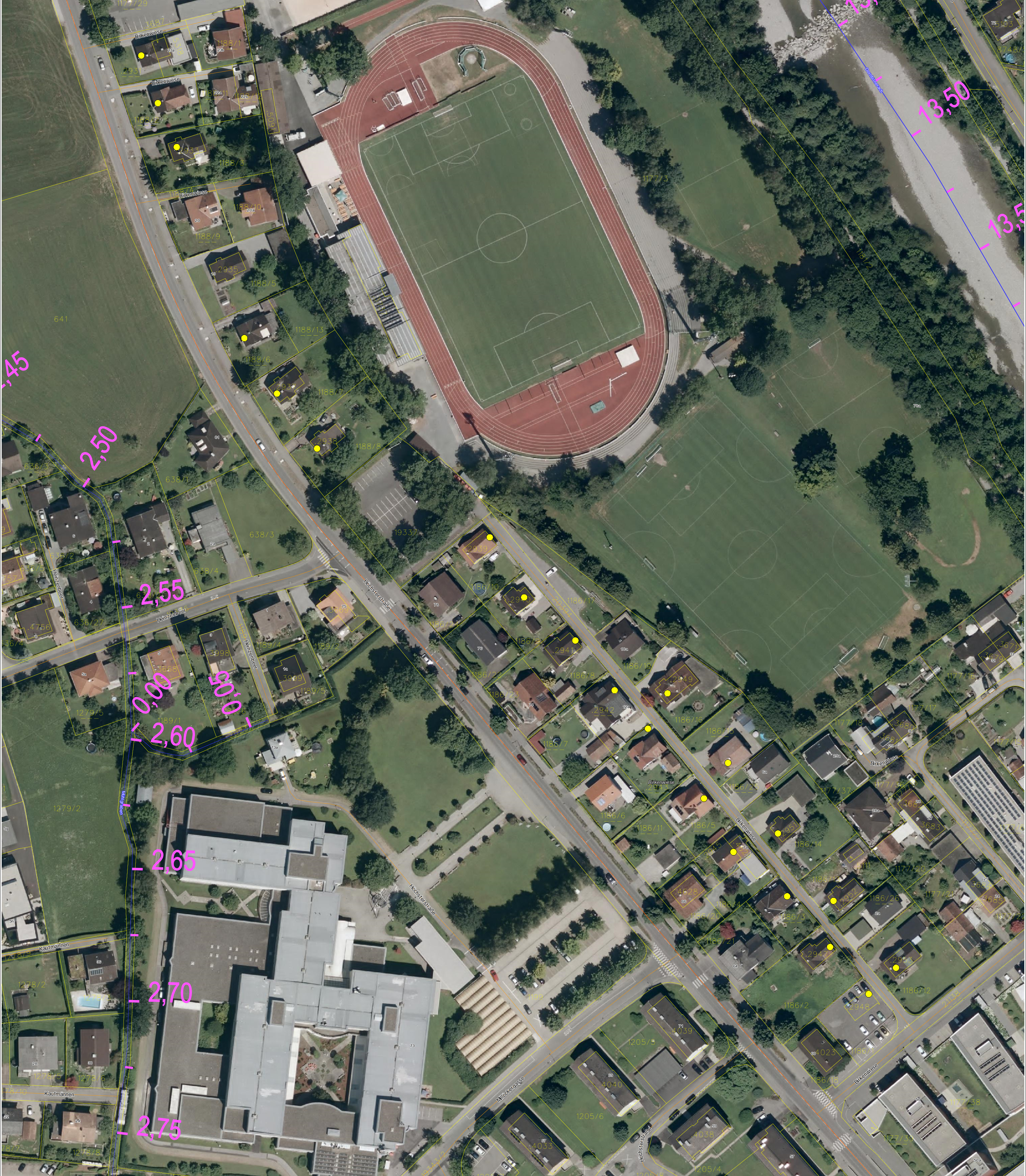 "Siedlung Birkenweise" (Housing estate / worker settlement) in Dornbirn (Vorarlberg, Austria). Country Vorarlberg - . Open Government Data Vorarlberg is licensed under a Creative Commons Attribution 3.0 Generic license. Approval for publication.